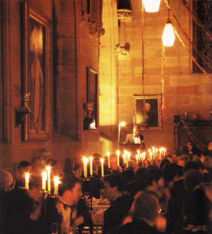 Formal dinner in the Great Hall, St John's College, University of Sydney. Author: John Polding